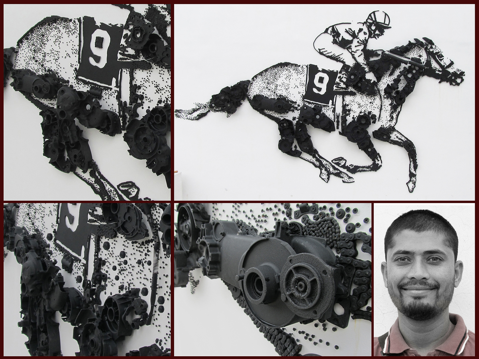 Portrait made by automobile parts, by Wajid Khan